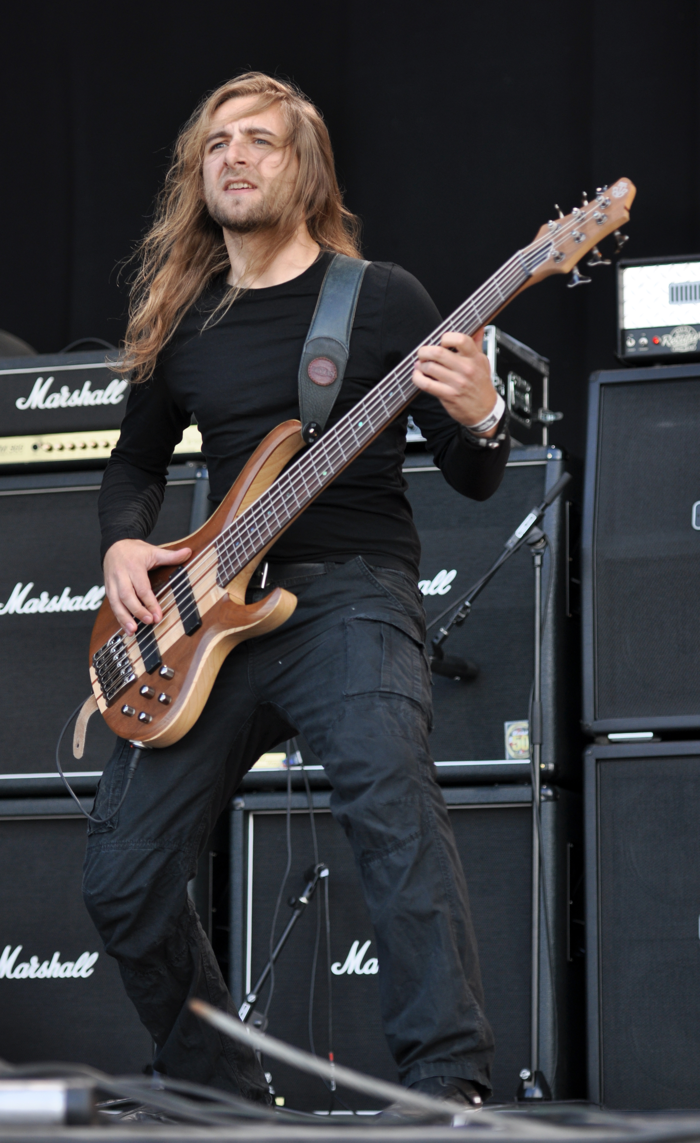 Obscura at Party.San Metal Open Air 2013